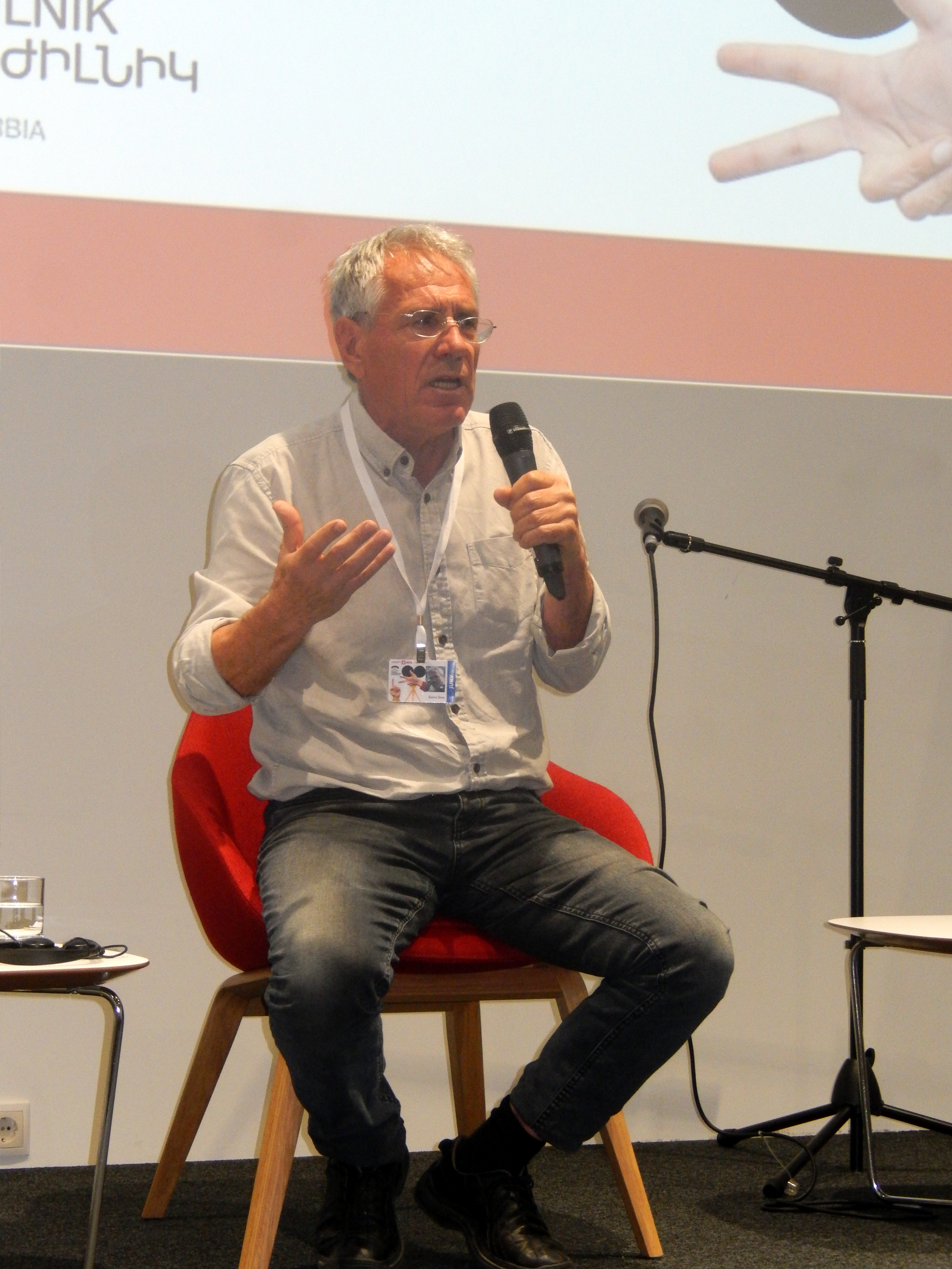 Master Class with Želimir Žilnik in Yerevan during Golden Apricot Yerevan International Film Festival